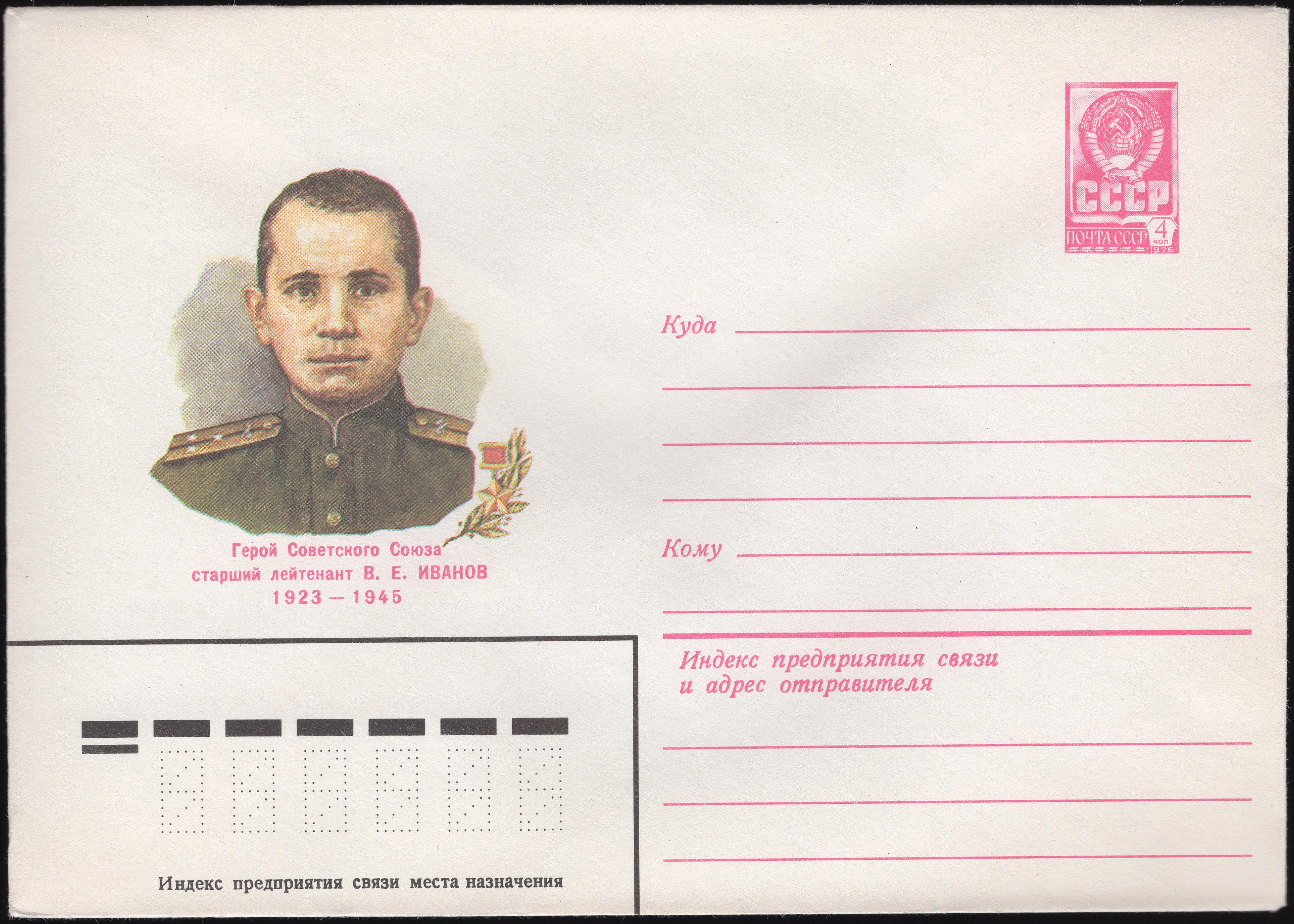 Hero of the Soviet Union Senior lieutenant Vasily Evgenevich Ivanov. 1923-1945. Series: Heroes of the Soviet Union. Artist Kravchuk G.